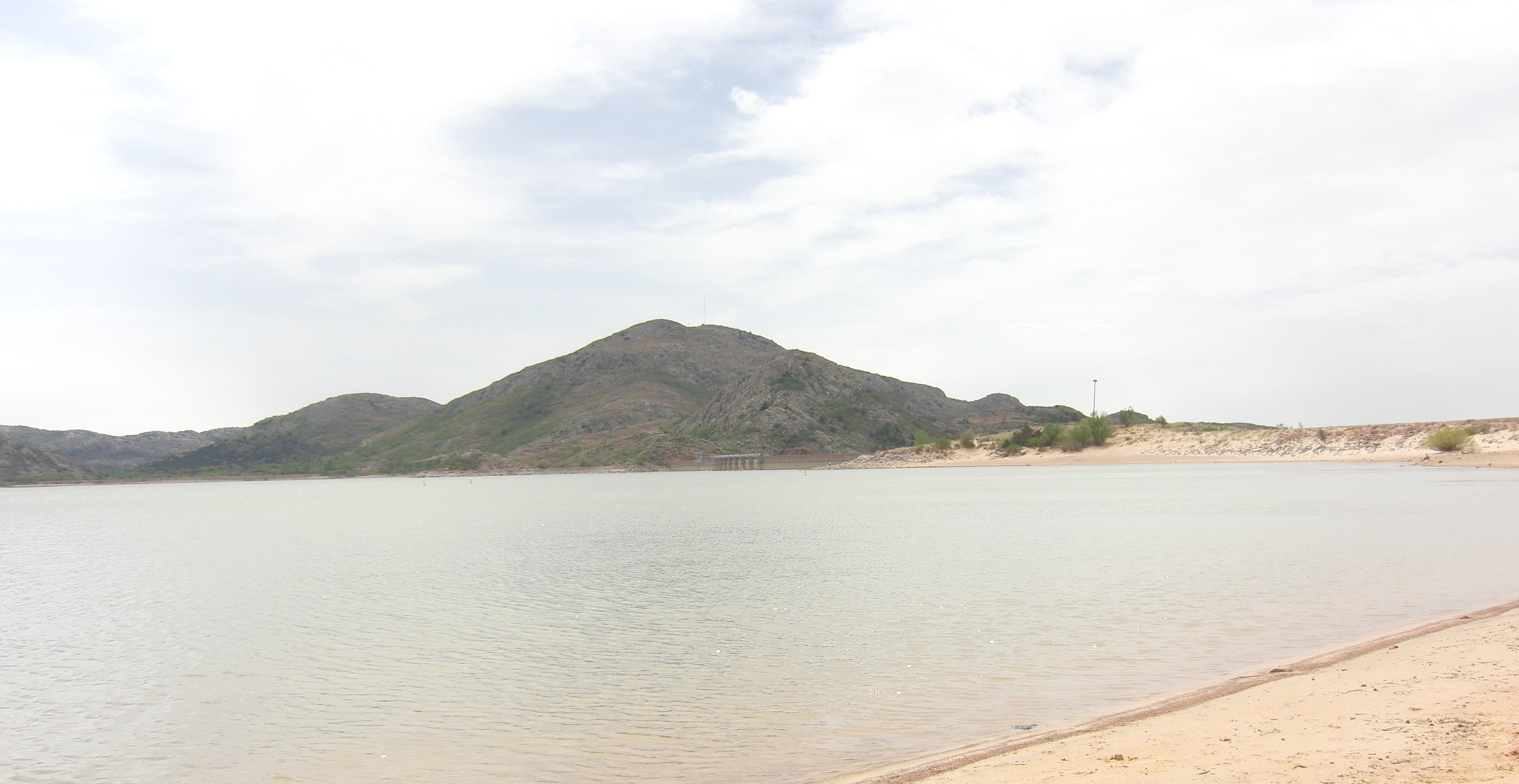 Granite knobs and Lake Altus looking south fromt the shore.